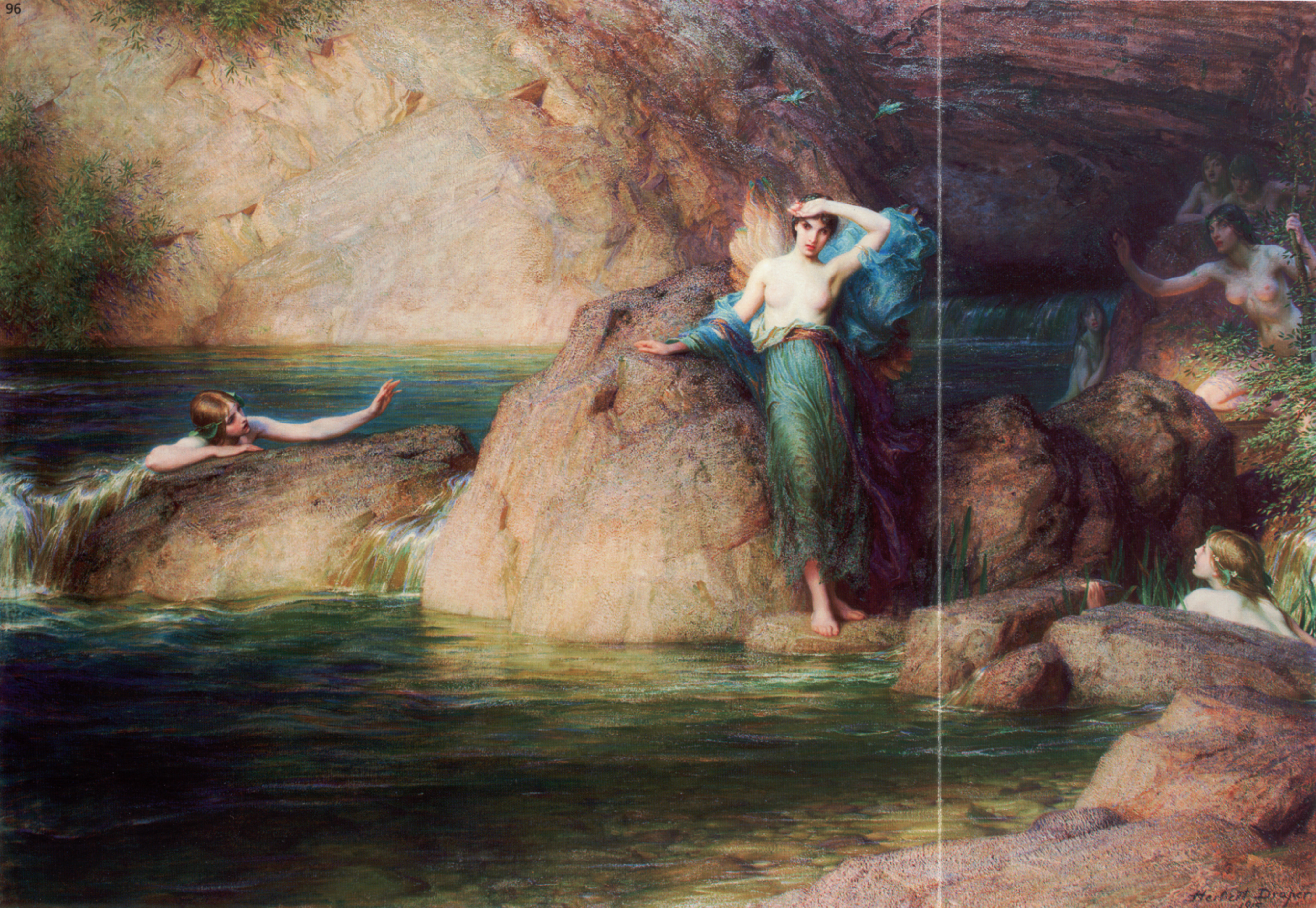 Halcyone, Oil on canvas, private collection. 61 × 85 inches. Halcyone is seeking her husband Ceyx; kingfishers are painted over her head.